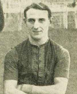 Photograph of Wally Sykes in 1904